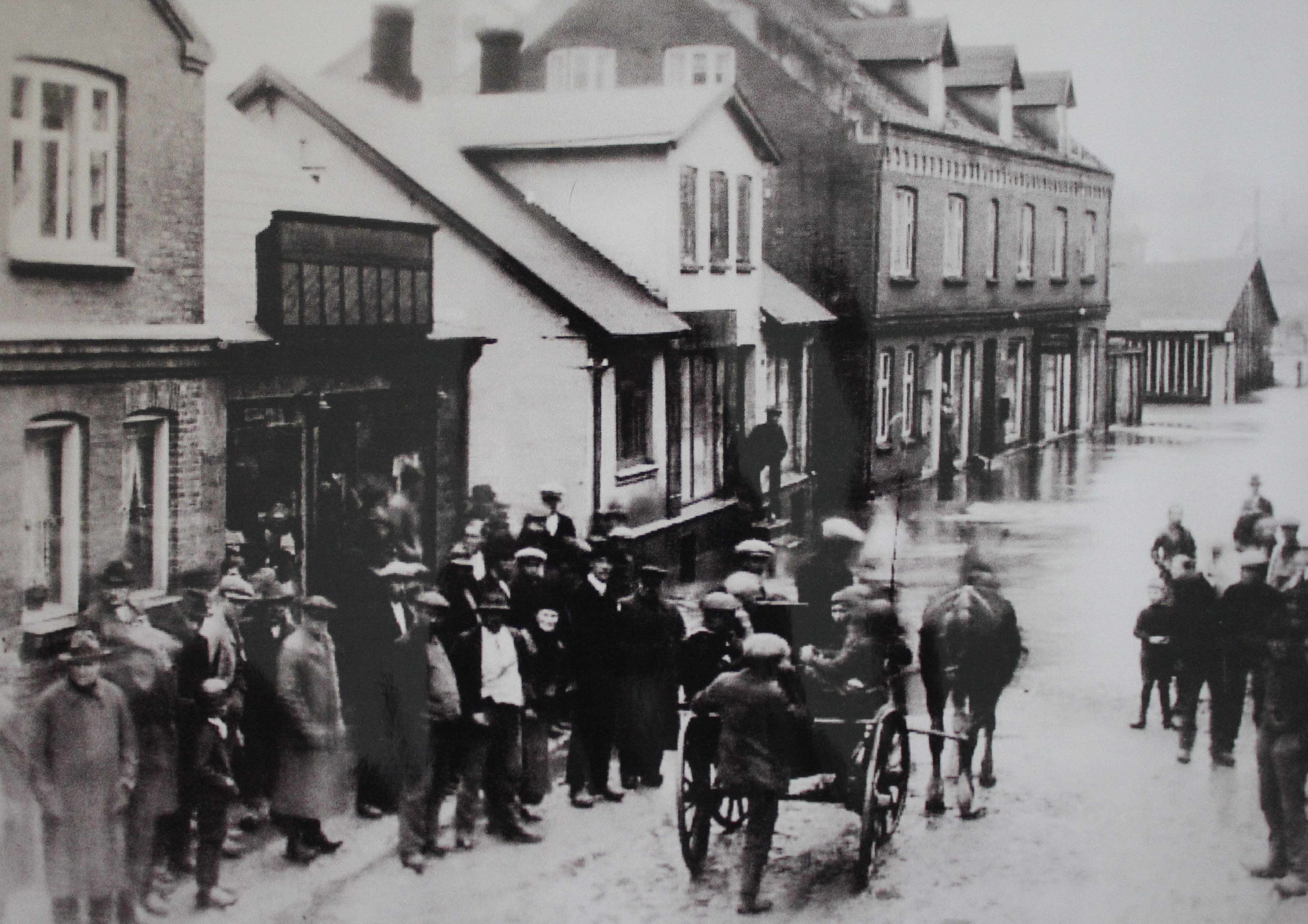 Floods in 1910.